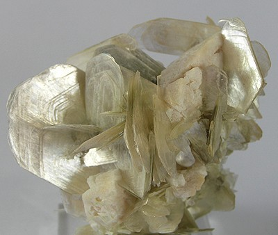 Muscovite, Albite (Var.: Cleavelandite) Locality: Divino das Laranjeiras, Doce valley, Minas Gerais, Southeast Region, Brazil (Locality at ) Size: 6 x 5.3 x 3.9 cm. Muscovite is almost always seen as an "accessory" mineral - except on rare occasions, as with this gorgeous specimen. The bladed crystals are bright pearly silver, in a complex intergrowth, with euhedral cleavelandites playing the role of accents on this specimen. Ex. Feist Collection.